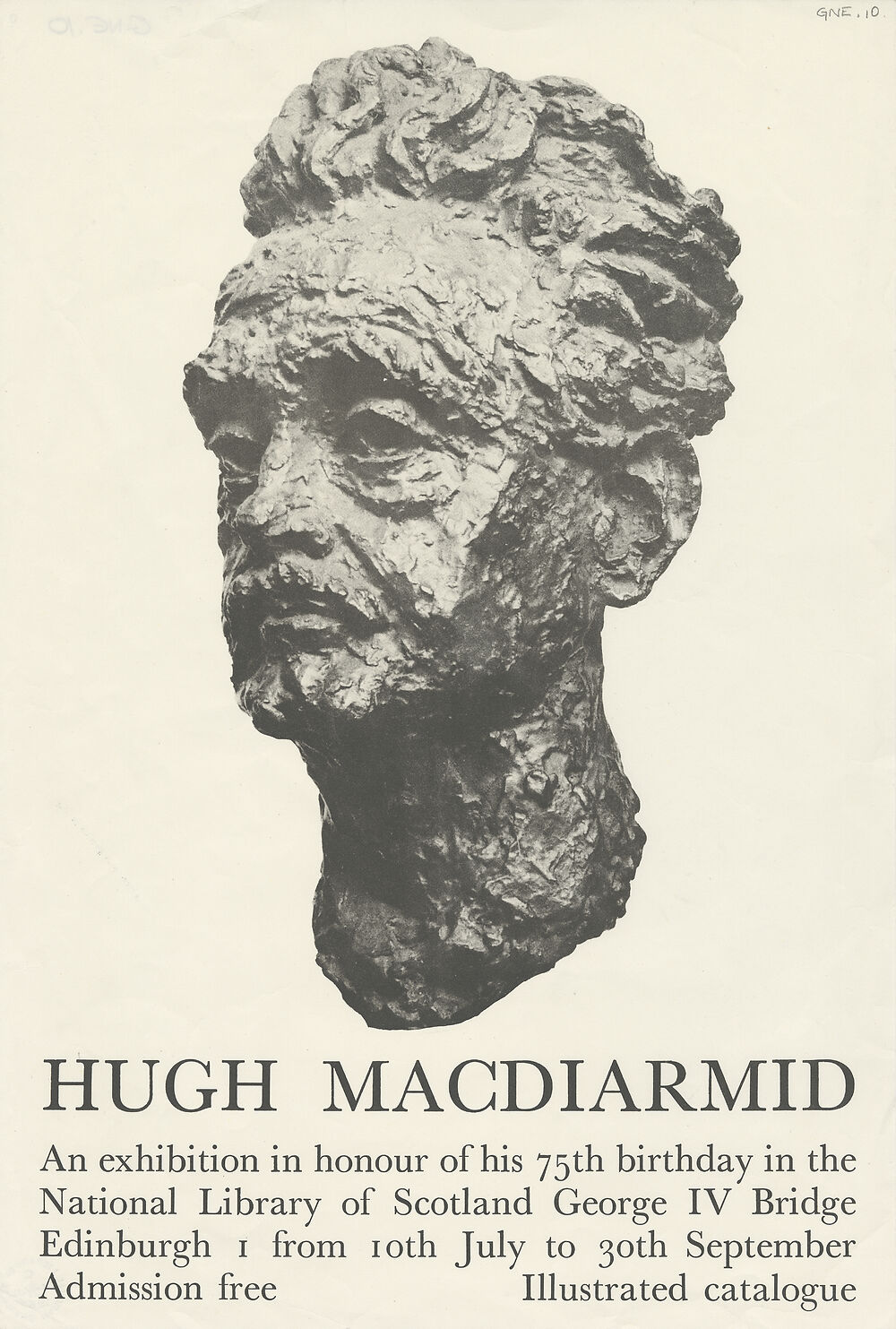 This work is free and may be used by anyone for any purpose. If you wish to use this content, you do not need to request permission as long as you follow any licensing requirements mentioned on this page.